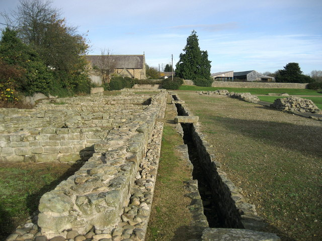 Part of the Roman Fort at Piercebridge